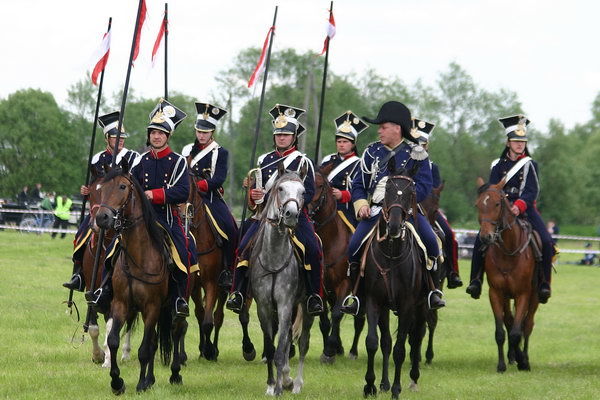 Reconstruction(2006) of Battle of Raszyn(1809)